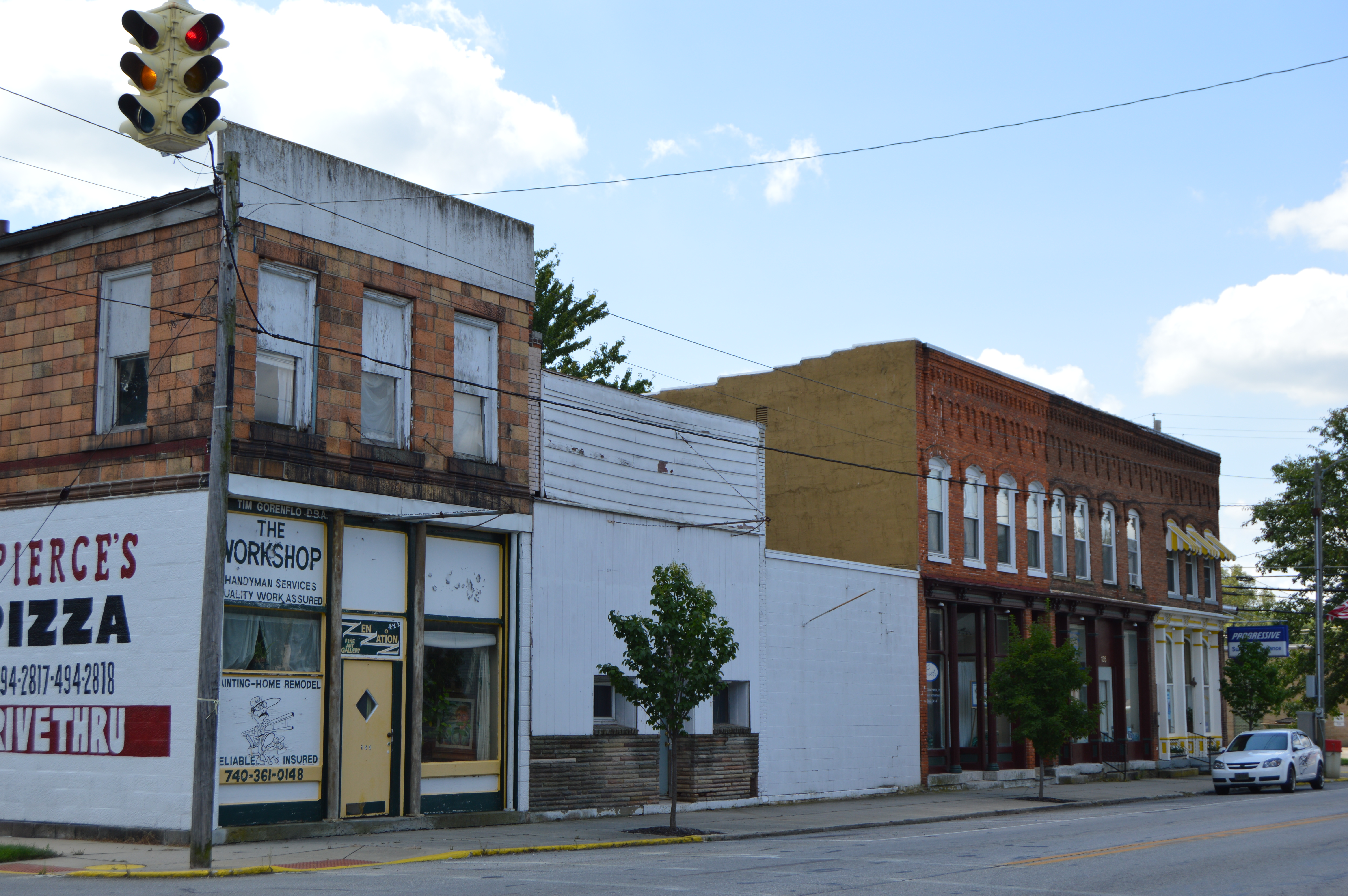 Buildings on the southern side of Water Street (State Route 47) just west of the Elm Street intersection in central Prospect, Ohio, United States.